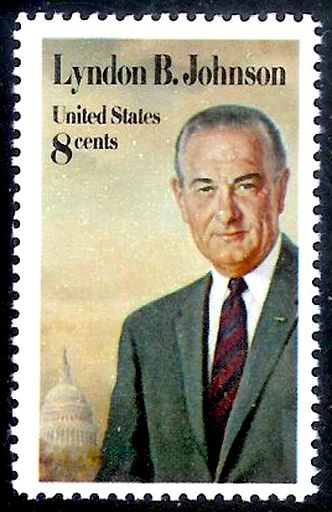 US Postage stamp: LBJ, 1973 issue, 8c